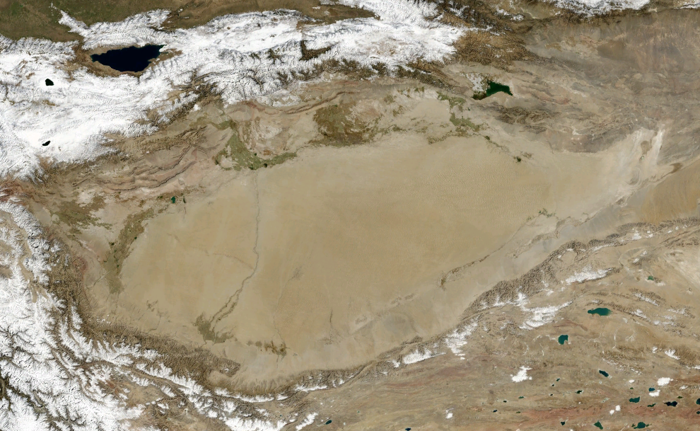 NASA World Wind 1.4 used.